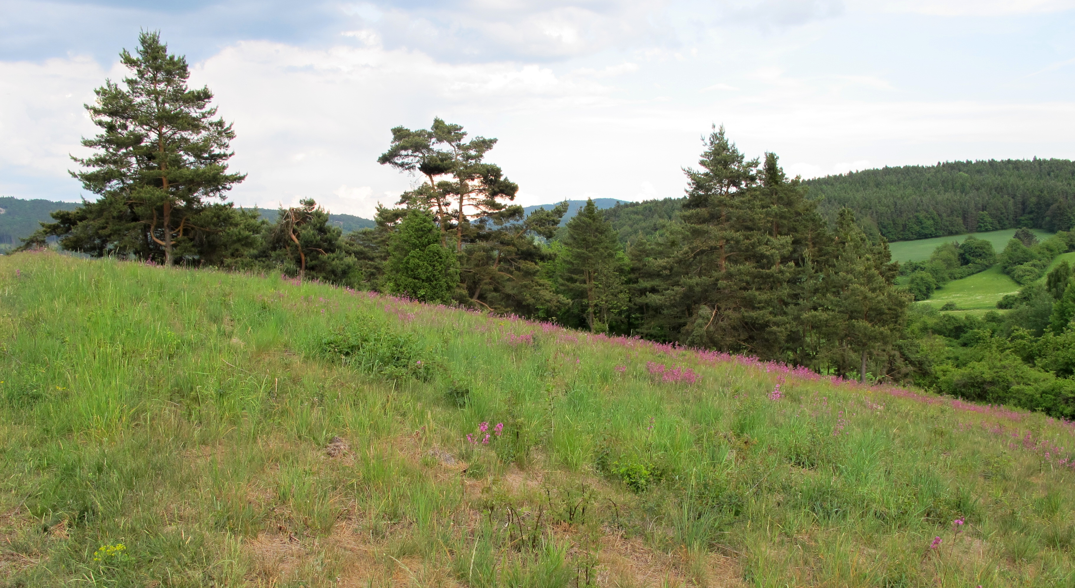 Natural monument Na horách near Křešín (near Jince) in Příbram Dístrict